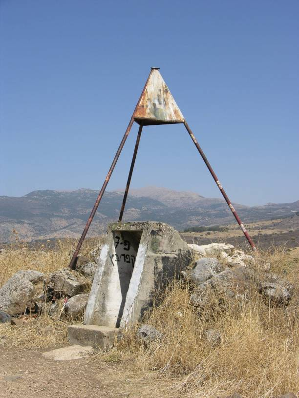 Bunker on the top of Givat HaEm, Upper Galilee, Israel